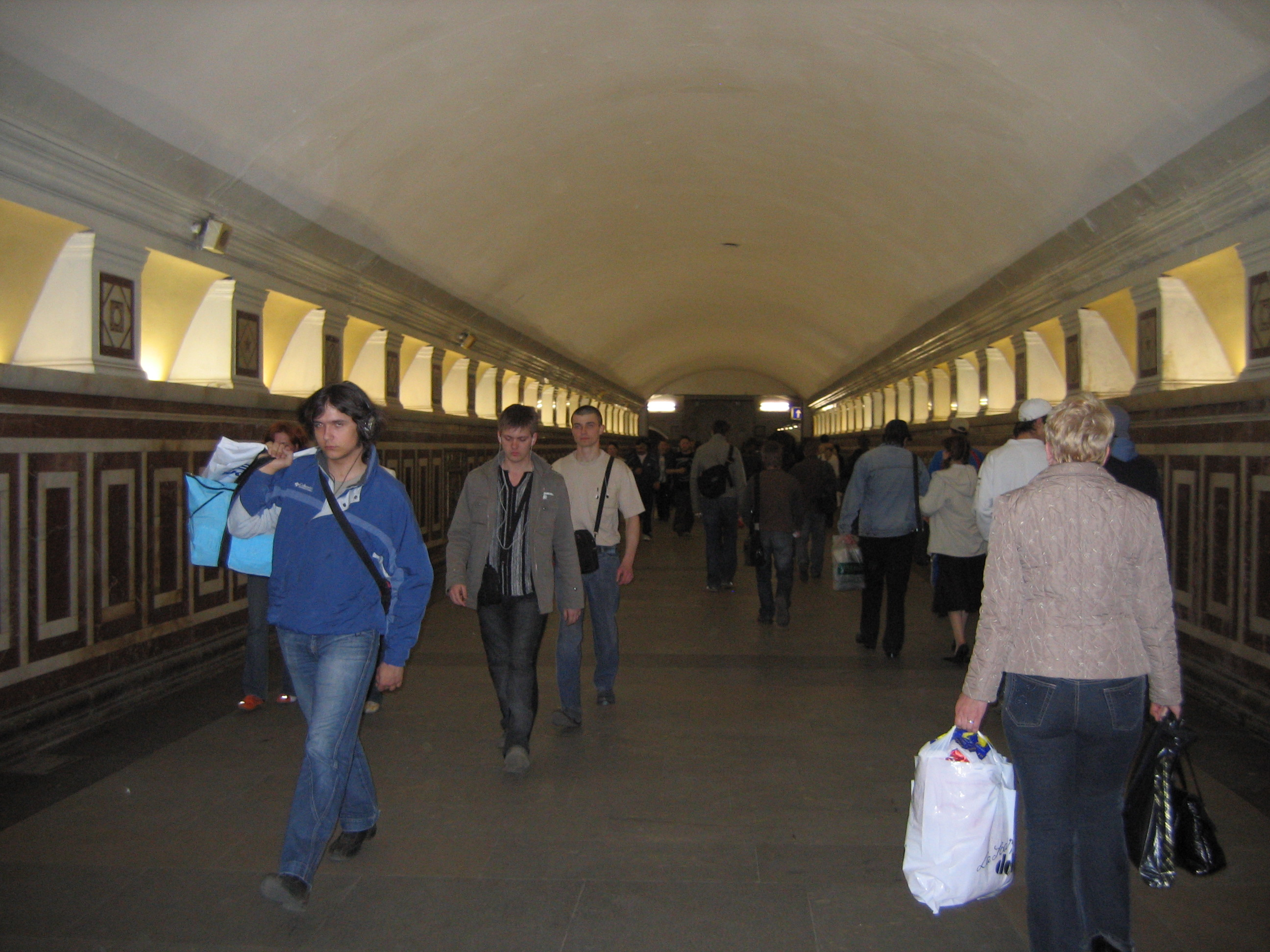 Transition between two Kurskaya Moscow Metro stations